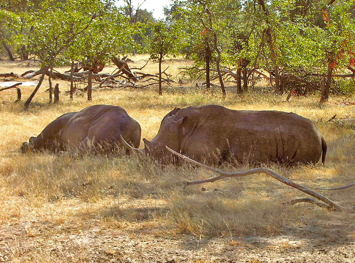 The two white rhinos in Mosi-oa-Tunya national park, Livingstone, Zambia.